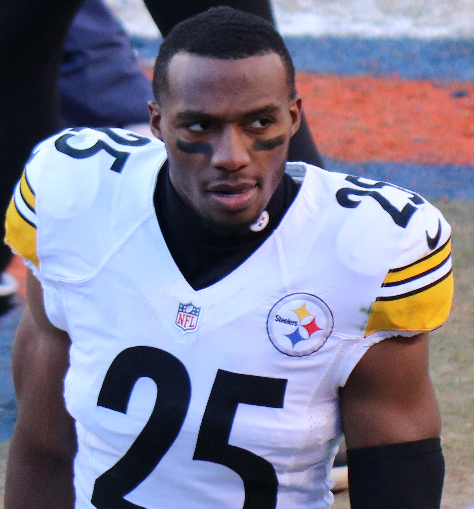 Brandon Boykin, a player on the National Football League.